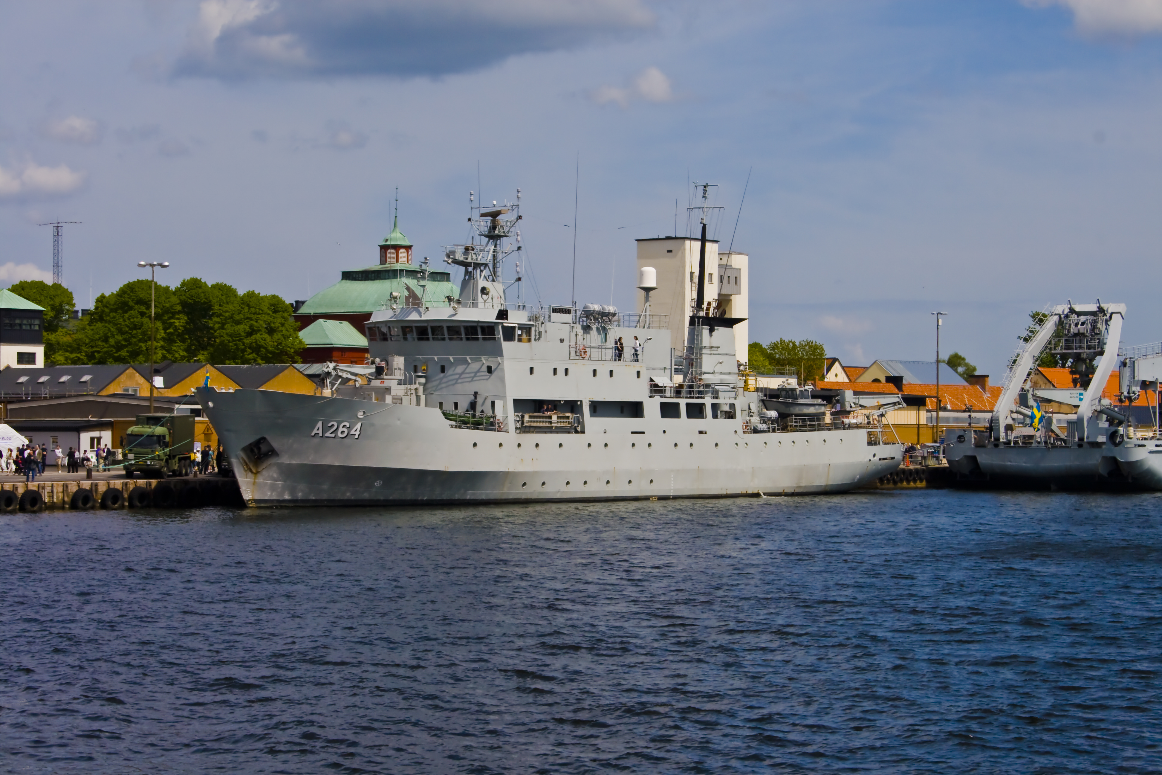 HMS Trossö (A264) at 'Marinens Dag' in Karlskrona, Sweden, when the naval base was open to visitors.